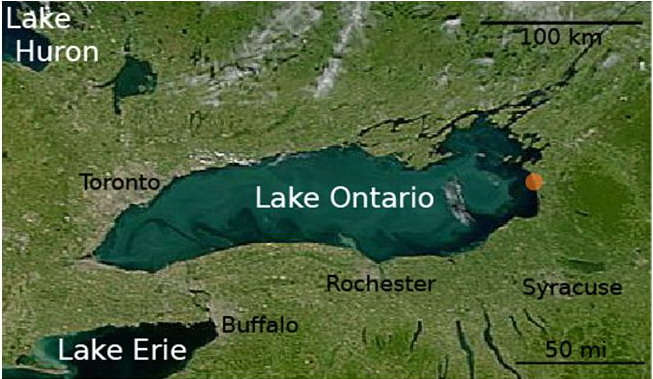 Satellite photograph from the SeaWiFS Project, public domain. The photograph has been cropped, and text labels added to serve as a locator image for the Southwick Beach State Park article.